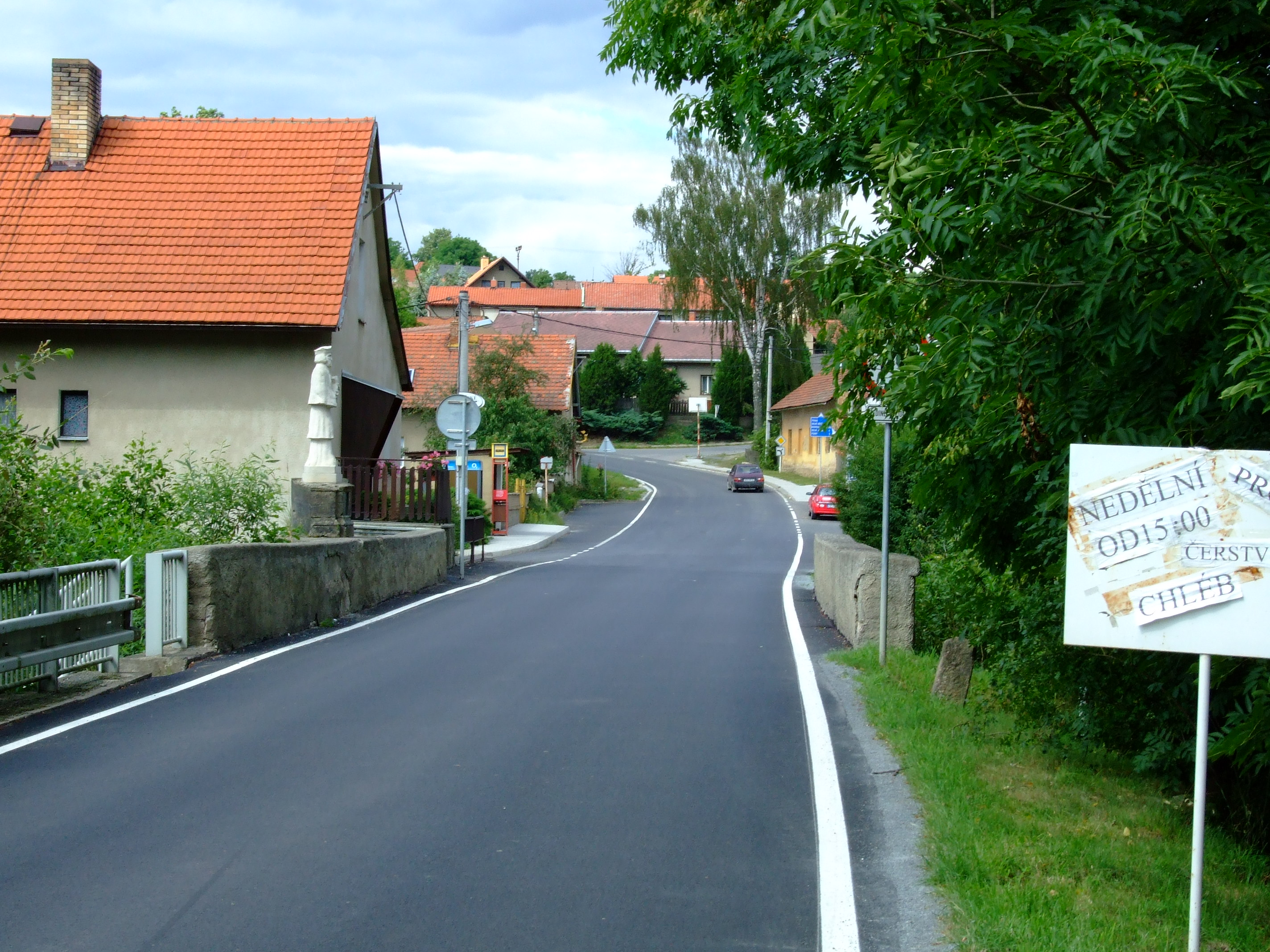 Libeř village, Central Bohemian region, CZ